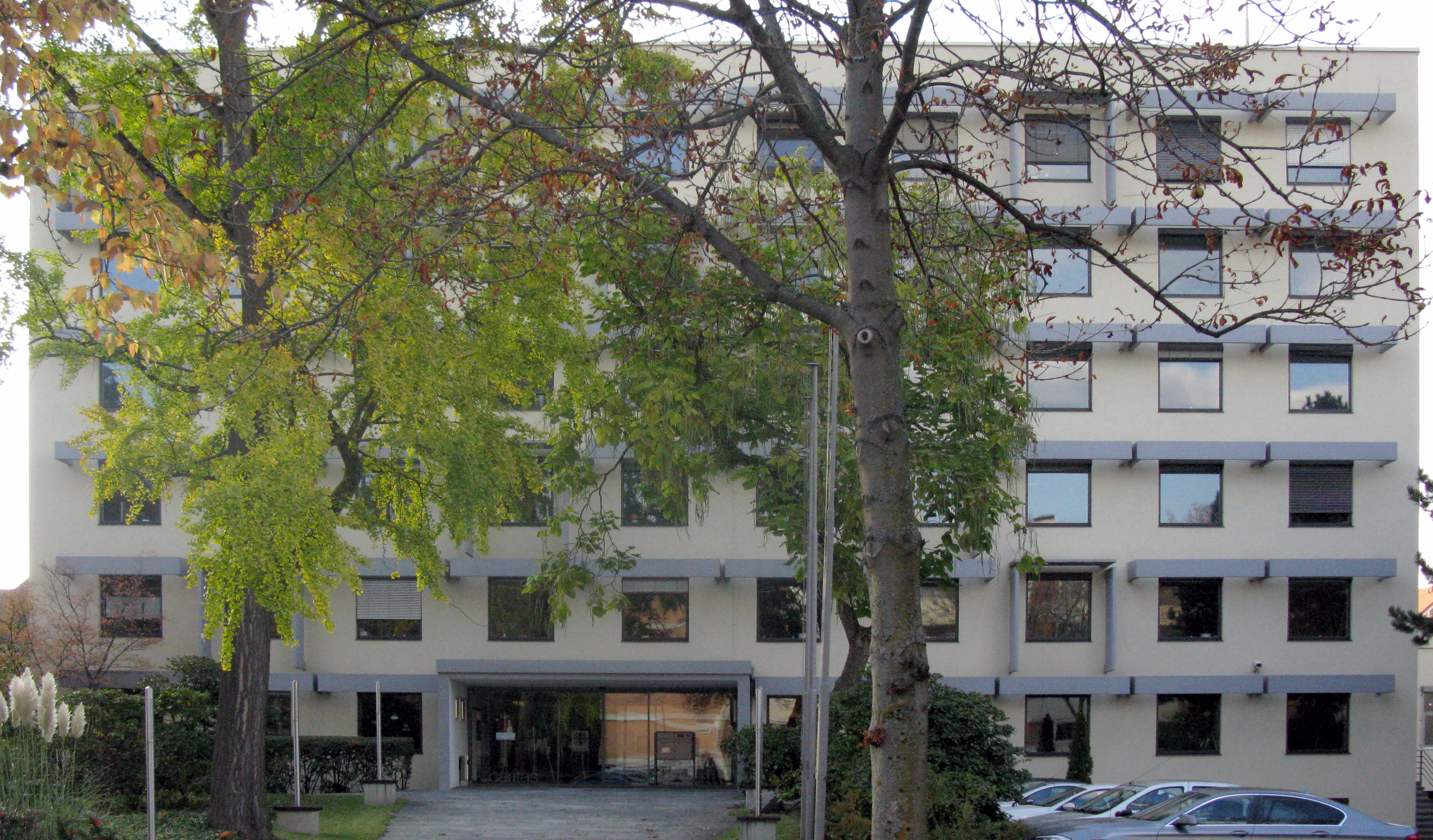 Deutscher Caritasverband e. V. , Karlstraße 40, Freiburg im Breisgau